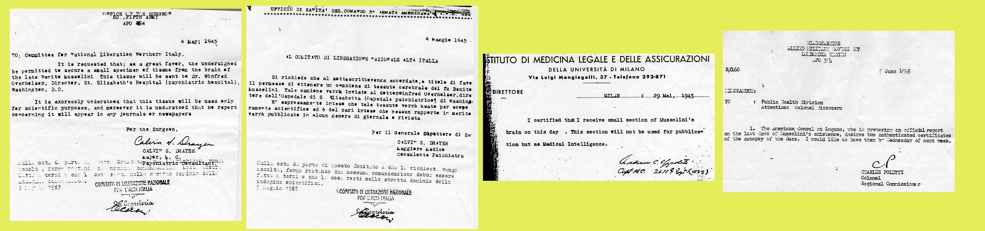 Documents (in english and italian translated) from US headquarter in Milan regarding request of Mussolini Brain an d his autopsy